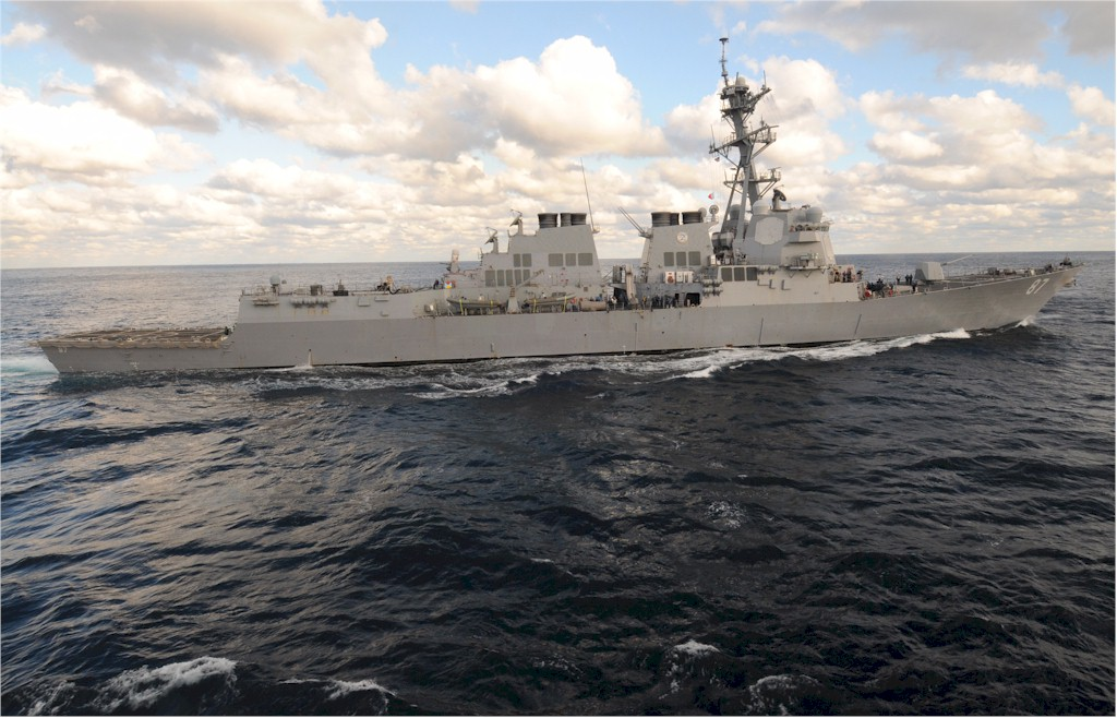 The United States Arleigh Burke-class guided-missile destroyer USS Mason transiting the Atlantic Ocean